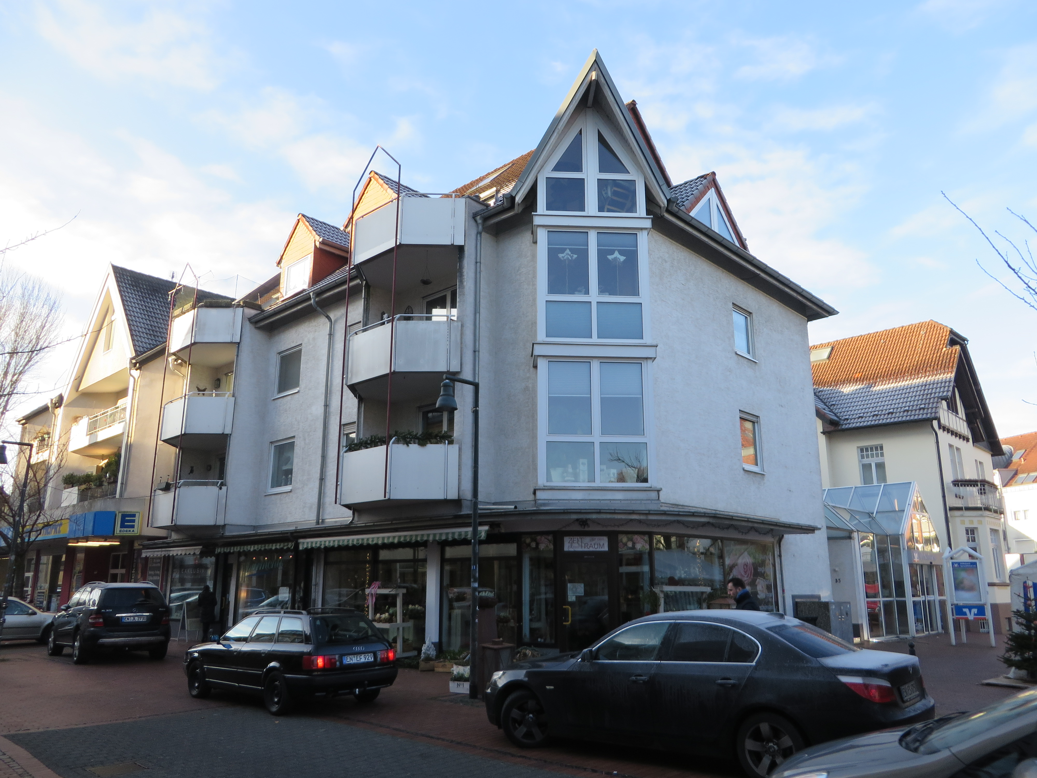 House Meesmannstraße 35 in Witten, Germany